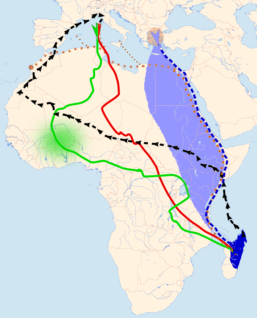 Migration Routes of Falco eleonorae